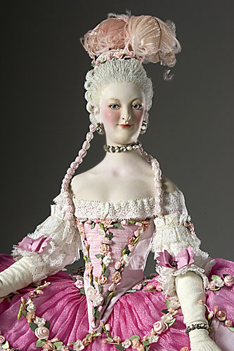 Historical Mixed Media Figure of Marie Louise of Savoy (Princess of Lamballe) produced by artist/historian George S. Stuart and photographed by Peter d'Aprix. This image, from the George S. Stuart Gallery of Historical Figures® archive ( is provided for all uses with appropriate attribution. Any derivatives must be shared in the same manner. Contributor mharrsch is webmaster for the gallery site.